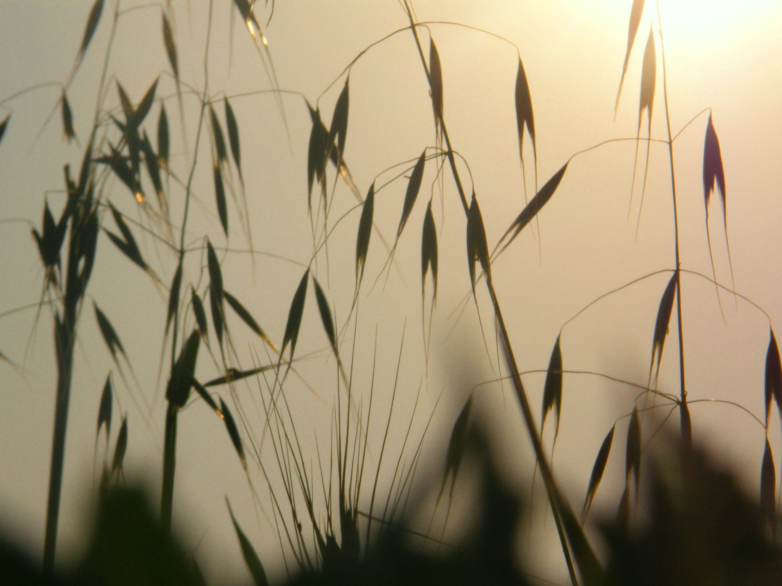 Oat Field - agriculture of Israel